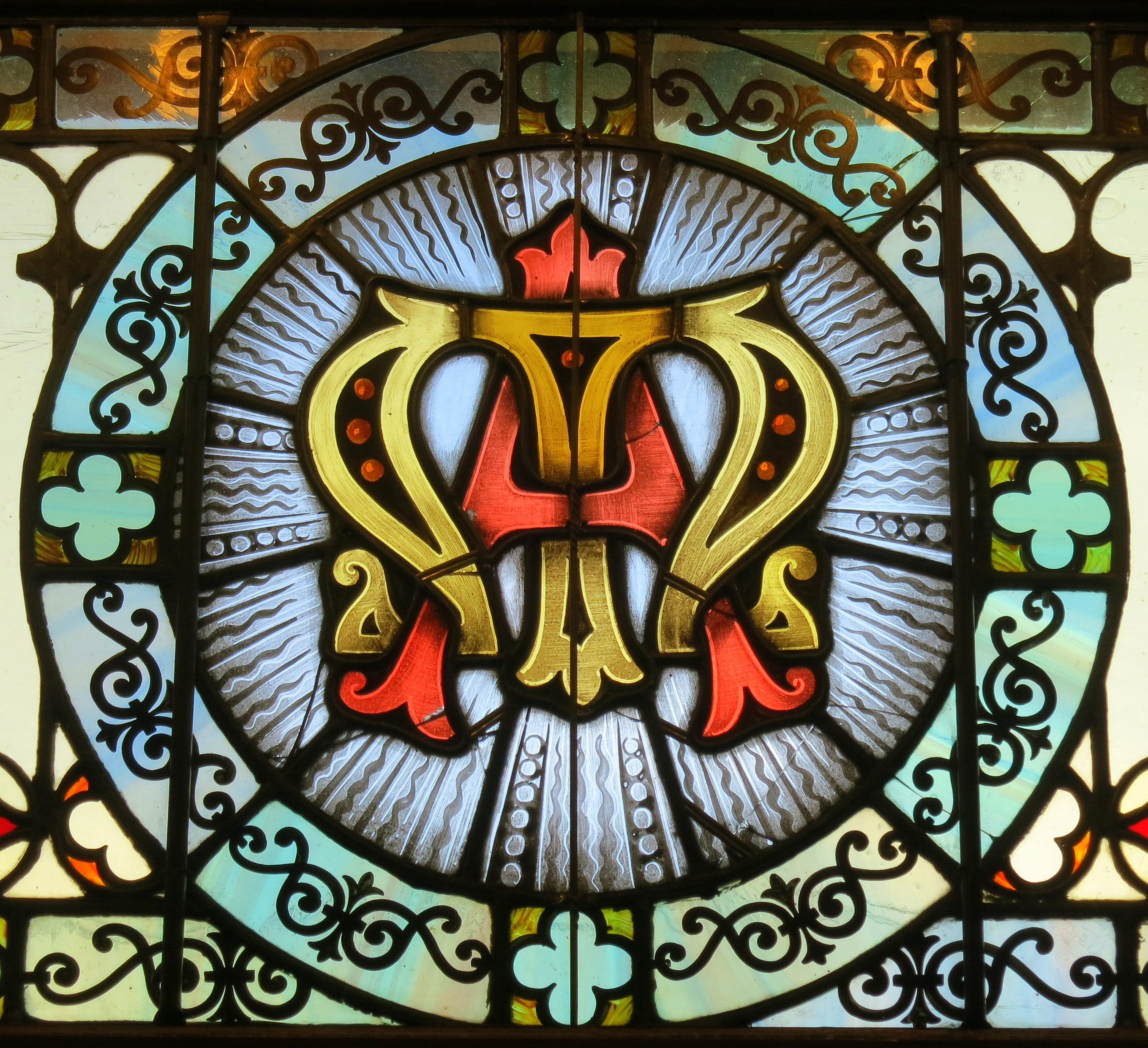 Saint Mary Catholic Church (Dayton, Ohio) - stained glass, Marian monogram